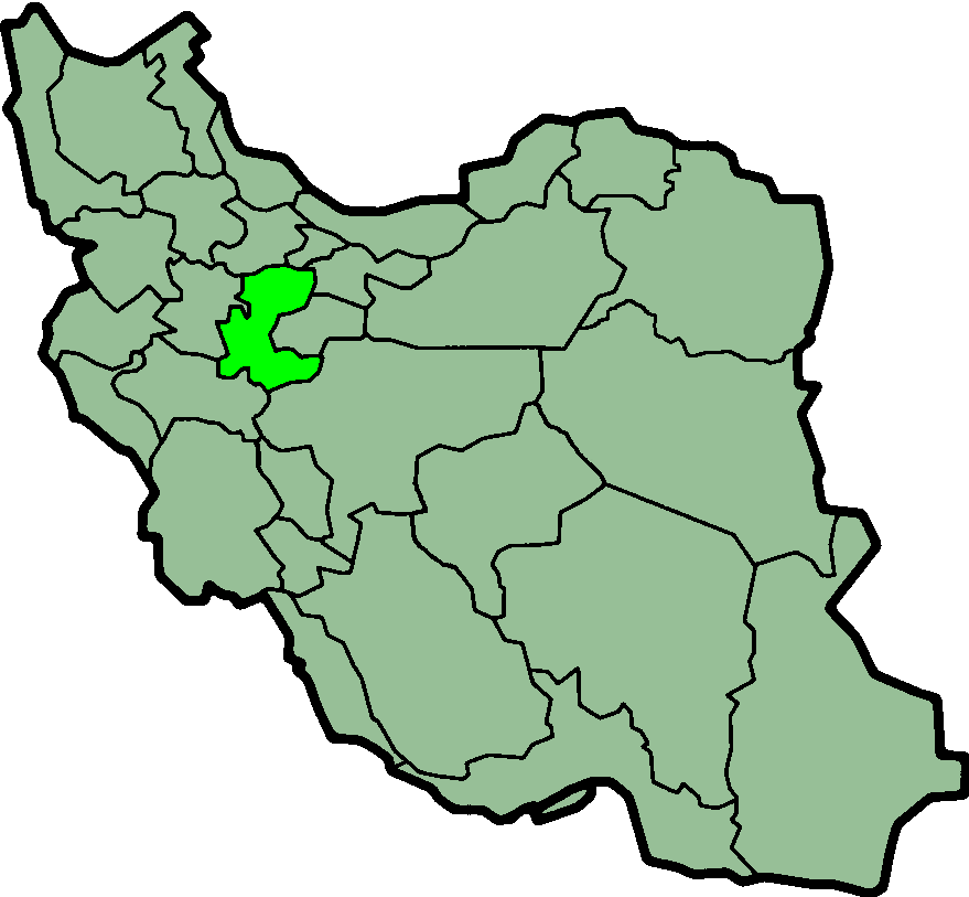 Province of Markazi, Iran